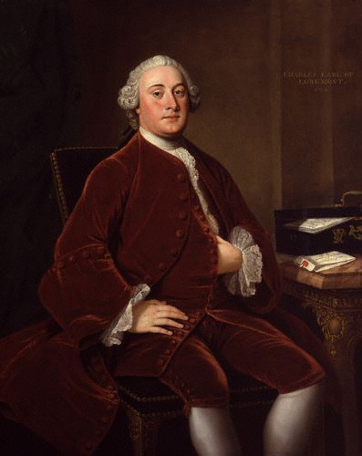 Charles Wyndham, 2nd Earl of Egremont, by William Hoare (died 1792).